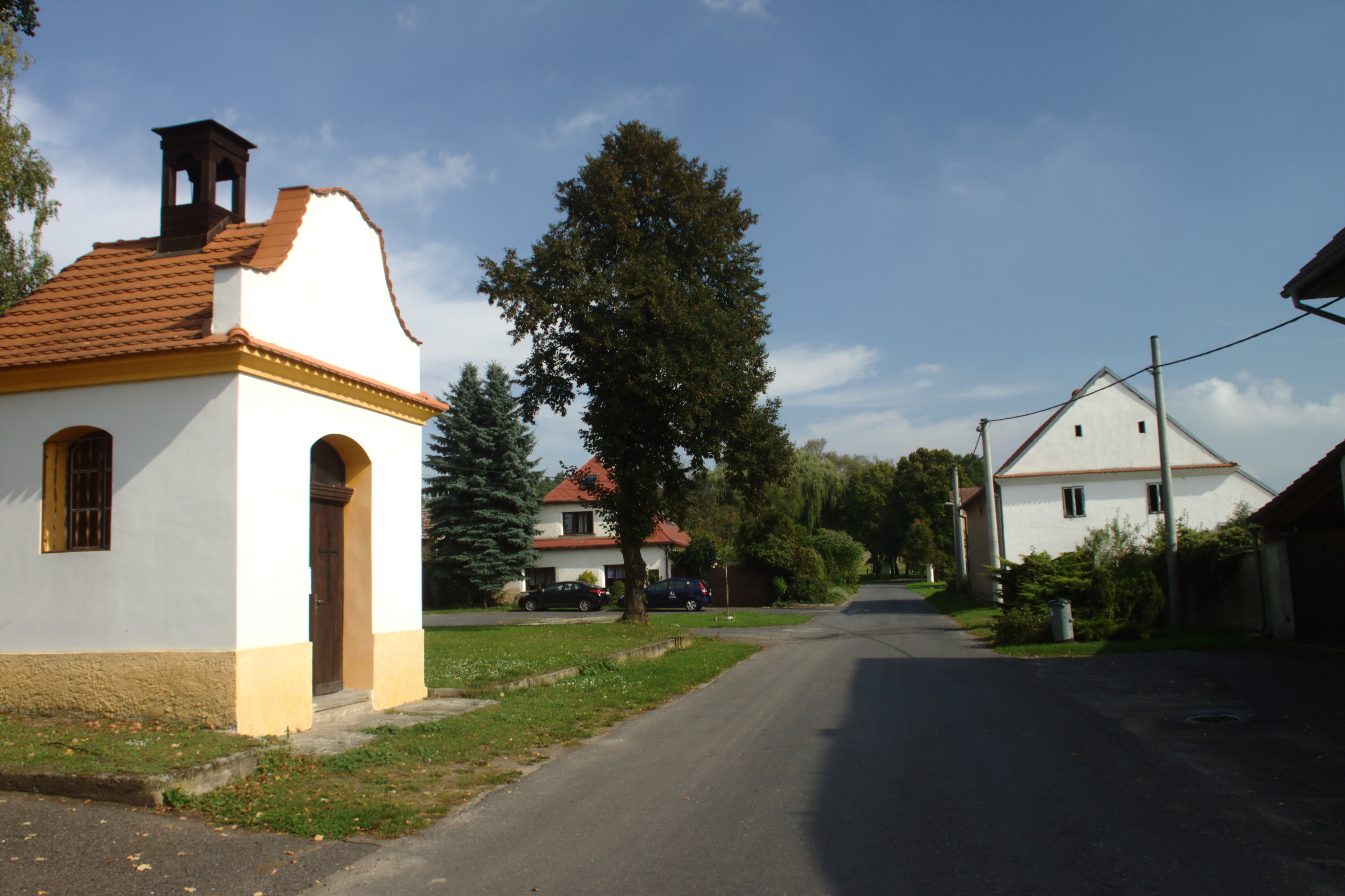 A chapel in the central part of the village of Oleško, Ústí Region, CZ